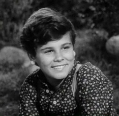 Cropped screenshot of Dean Stockwell from the trailer for the film Stars in My Crown.